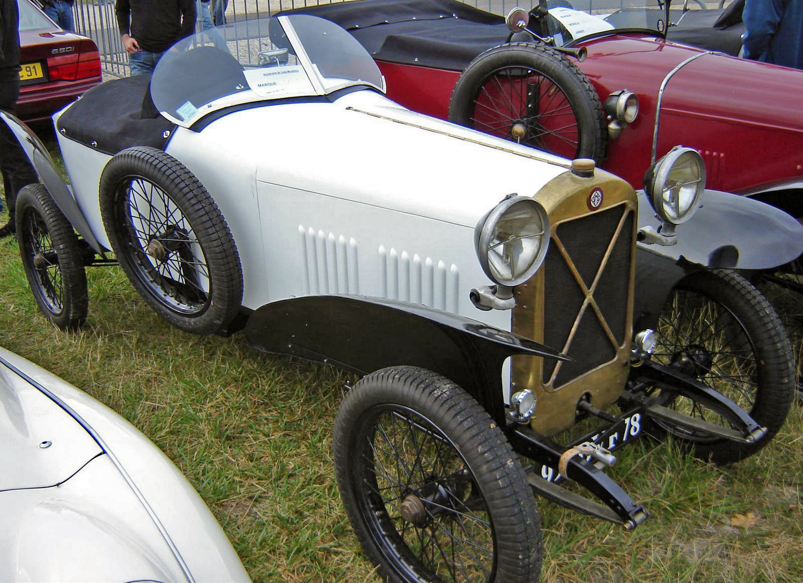 1926 Salmson VAL 3 Sport 2 Places at the Autodrome de Linas-Montlhéry, 2009